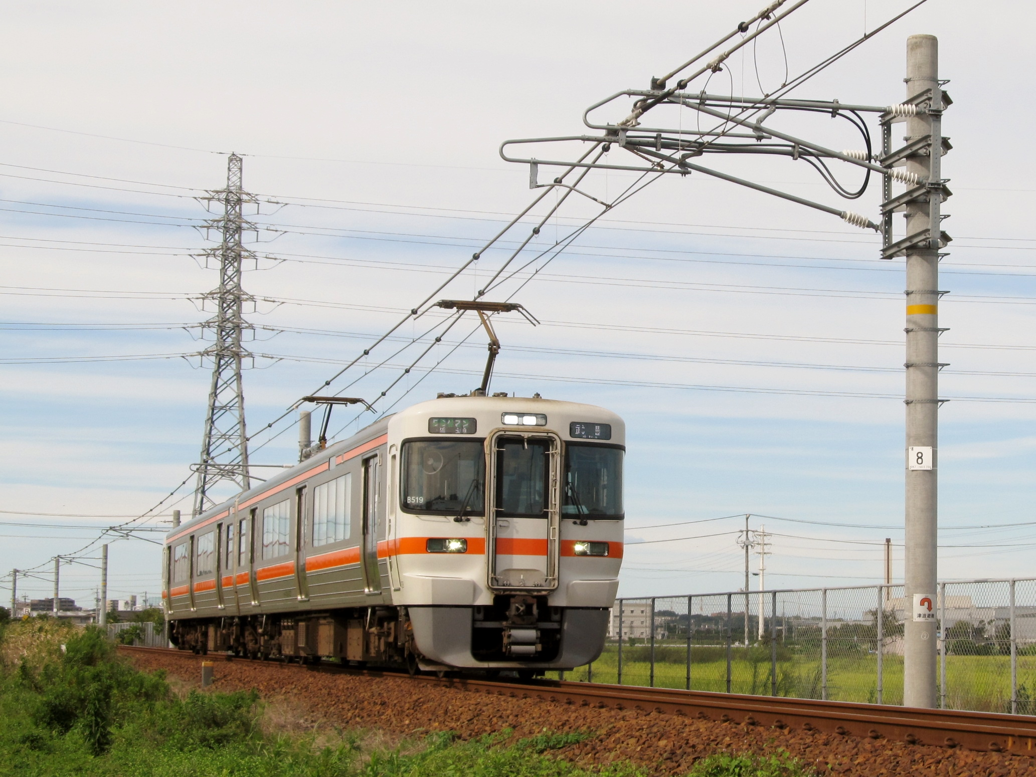 JR Central 313-1300 series EMU set B519 on a Taketoyo Line service for Taketoyo